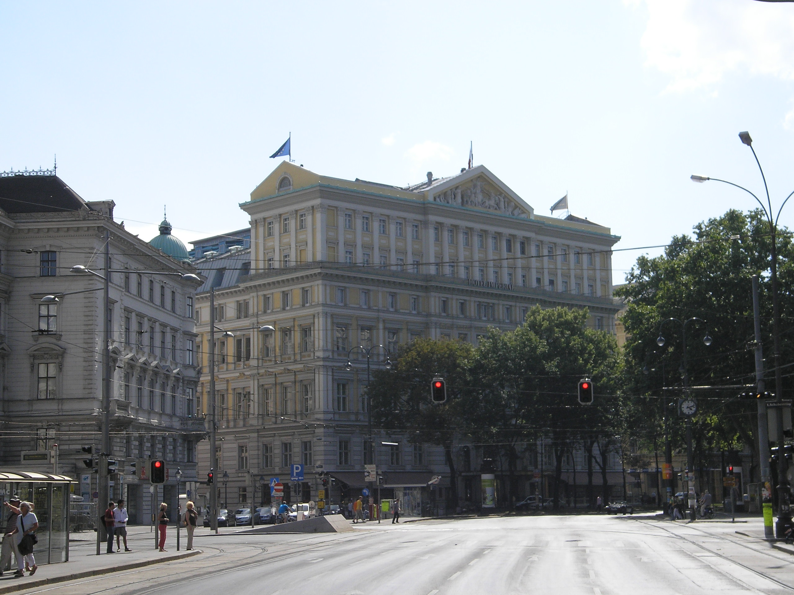 The Hotel Imperial in Vienna's first district Innere Stadt.